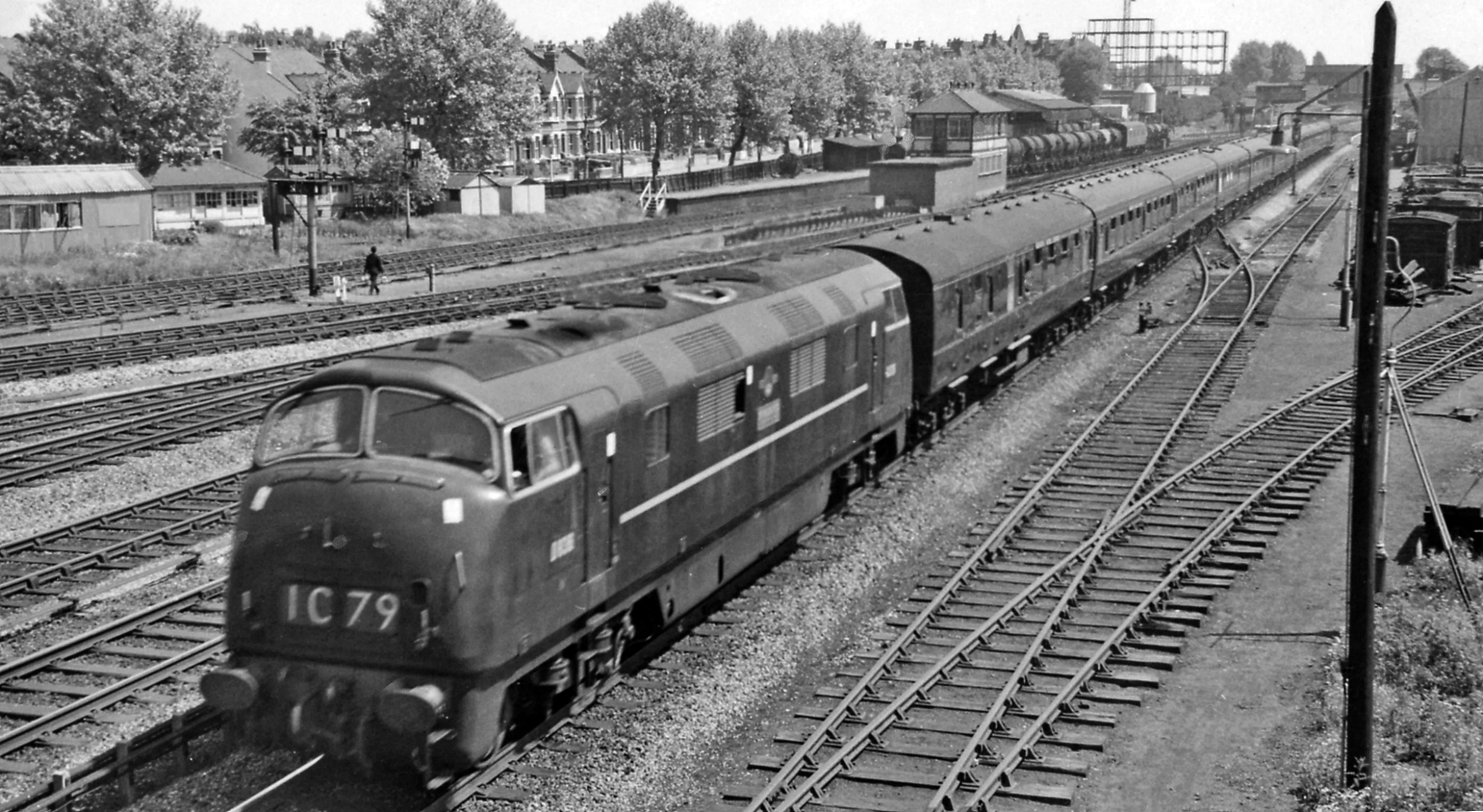 Diesel-hauled Down express near West Ealing. View eastward, towards Paddington; GWR main line to Reading and the West. NB Loco/MAN Type 4 2,200 hp Diesel-Hydraulic B-B No. D836 'Powerful' heads the 11.15 Paddington - Taunton. The lines going off on the left from West Ealing Junction Box are the beginning of the Greenford Loop. Behind the Box is the Milk Dock.